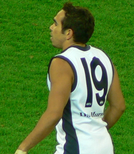 Eddie Betts, Australian rules footballer